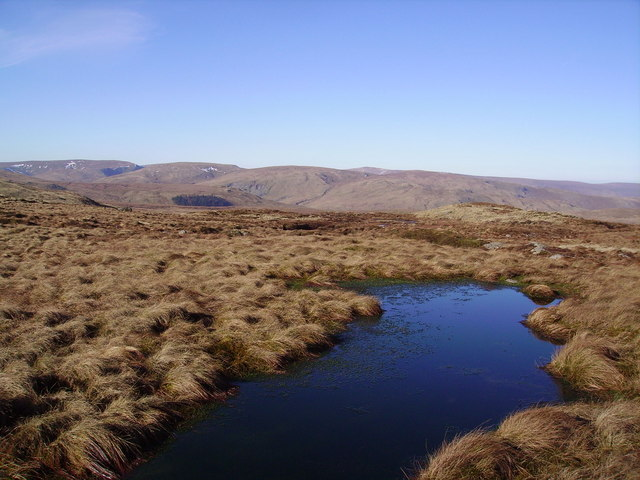 Tarn, Great Saddle Crag Topped up by recently melted snow. Looking towards the Lake District hills. Branstree and Selside Pike in shot the most easterly of the Wainwrights